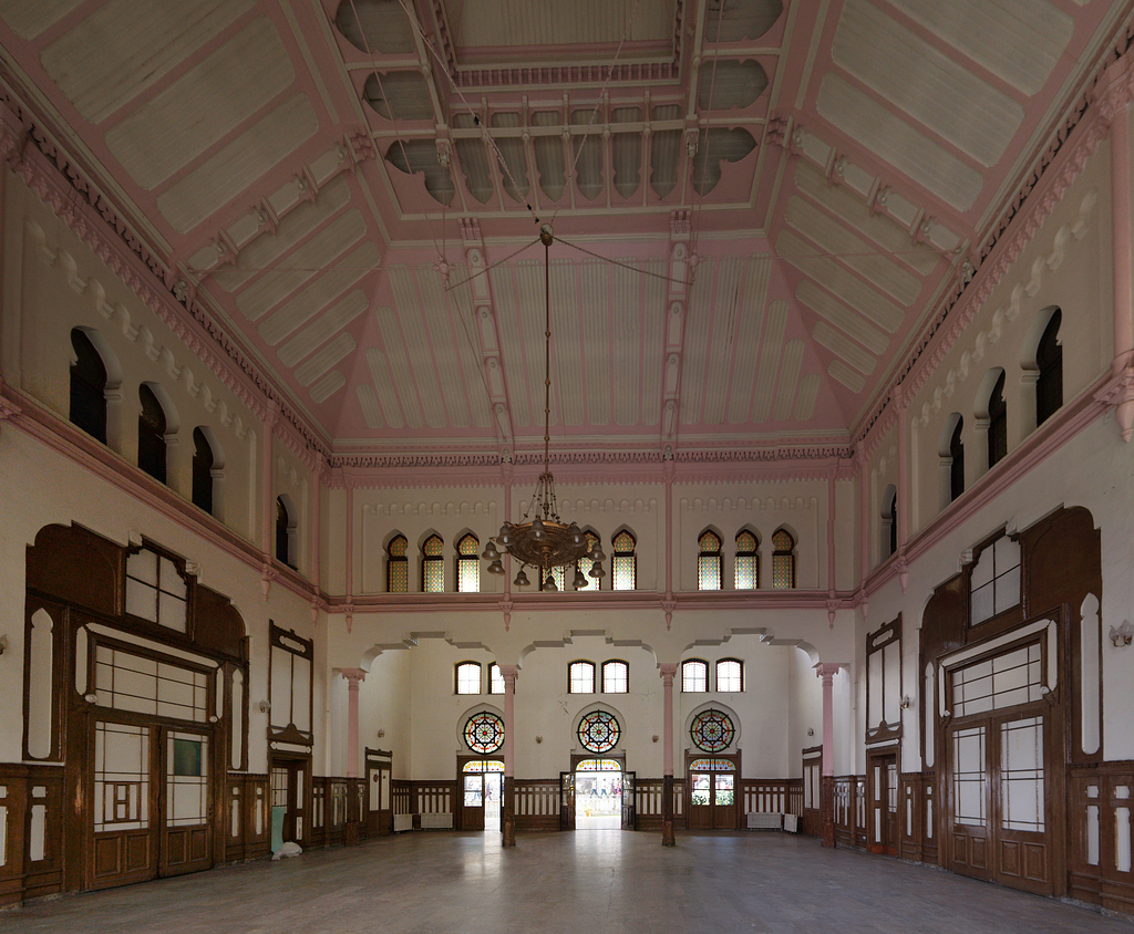 Interior of Sirkeci railway station, in Istanbul, the terminal of the Orient Express. Stitch of 6 horizontal images.